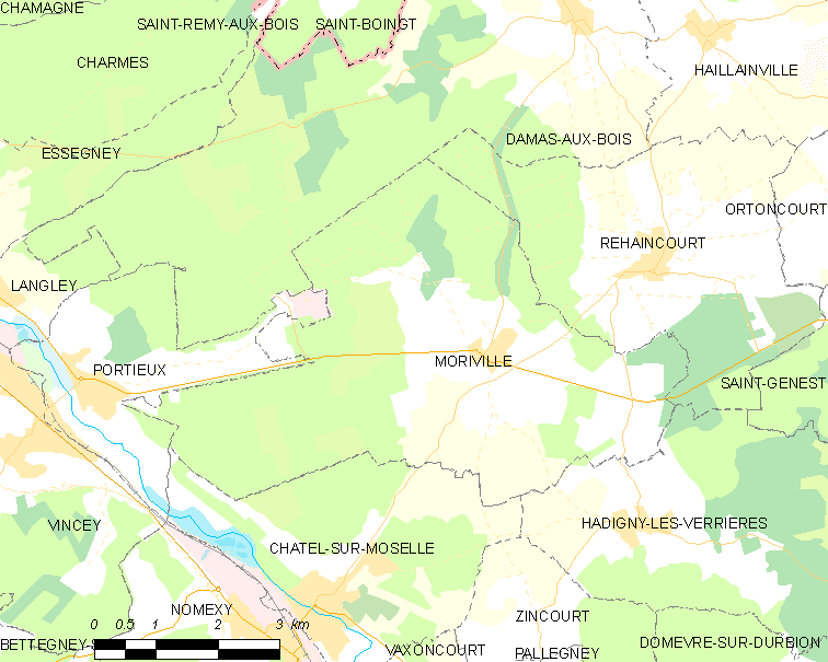 Map of French municipality Moriville